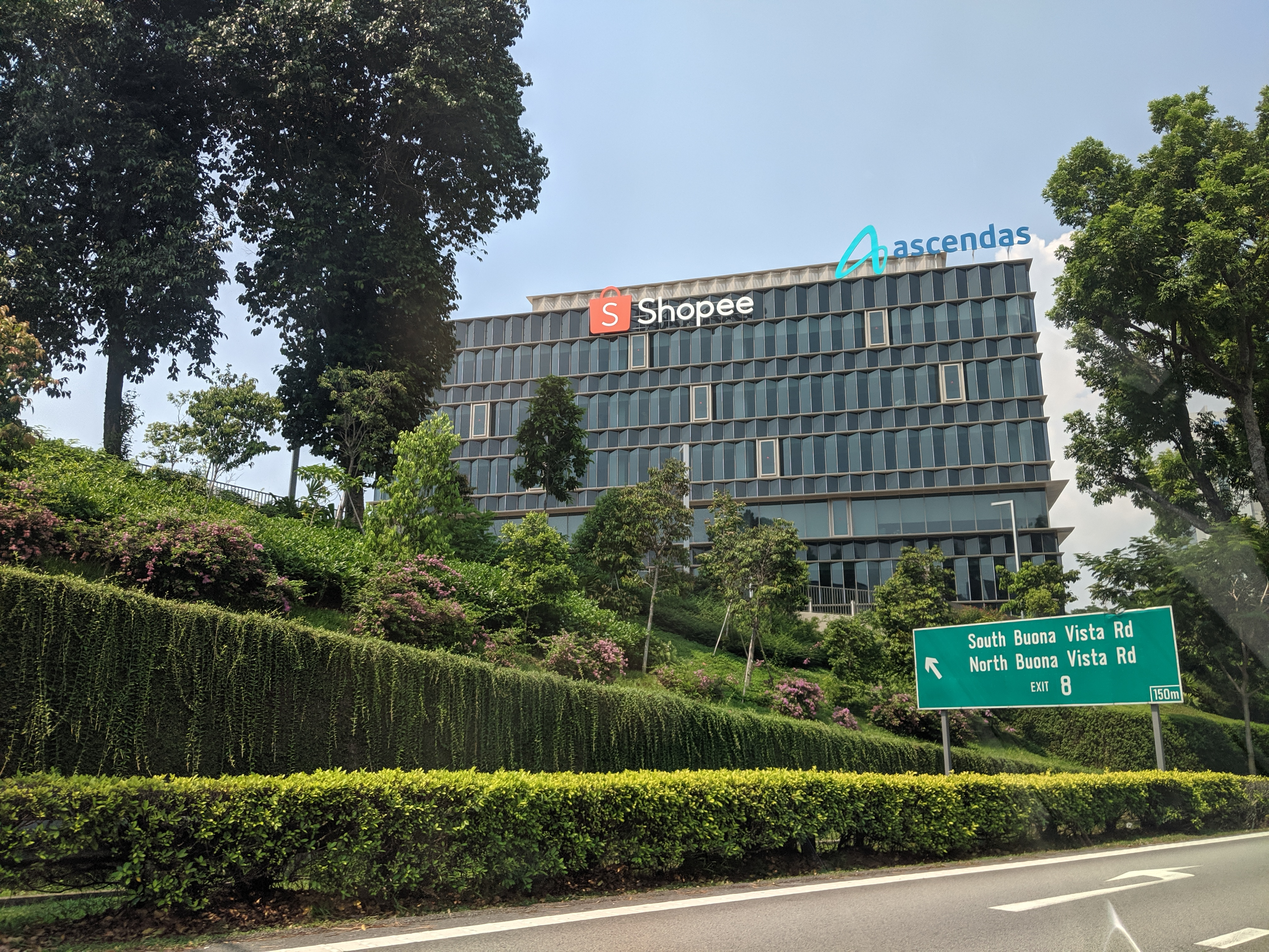 This is the headquarters of Shopee located in Singapore Science Park.